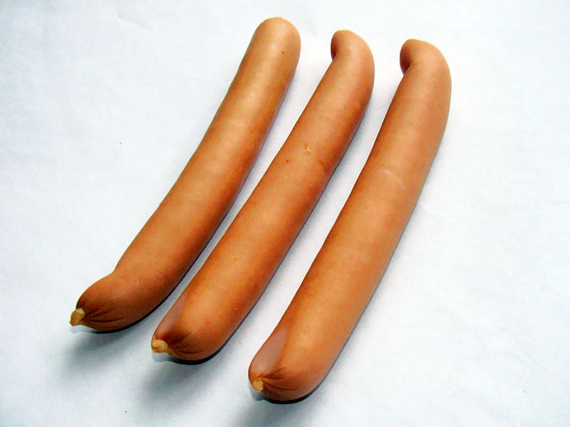 Wiener veal sausage